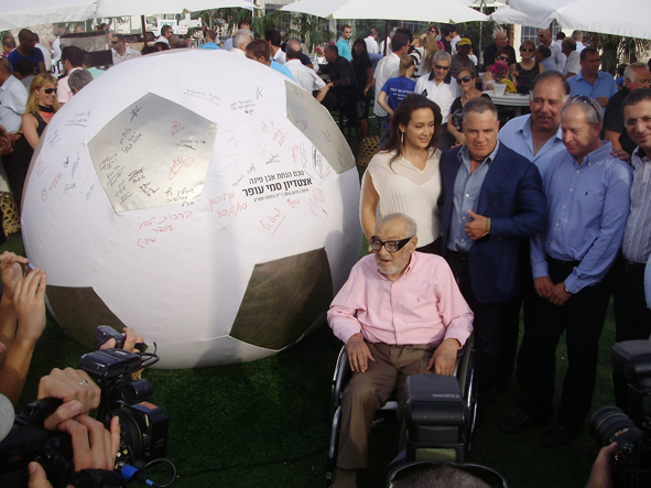 A giant soccer ball exhibit, presented at the launch and corner stone ceremony of the Ofer Stadium in Haifa, Israel.2010